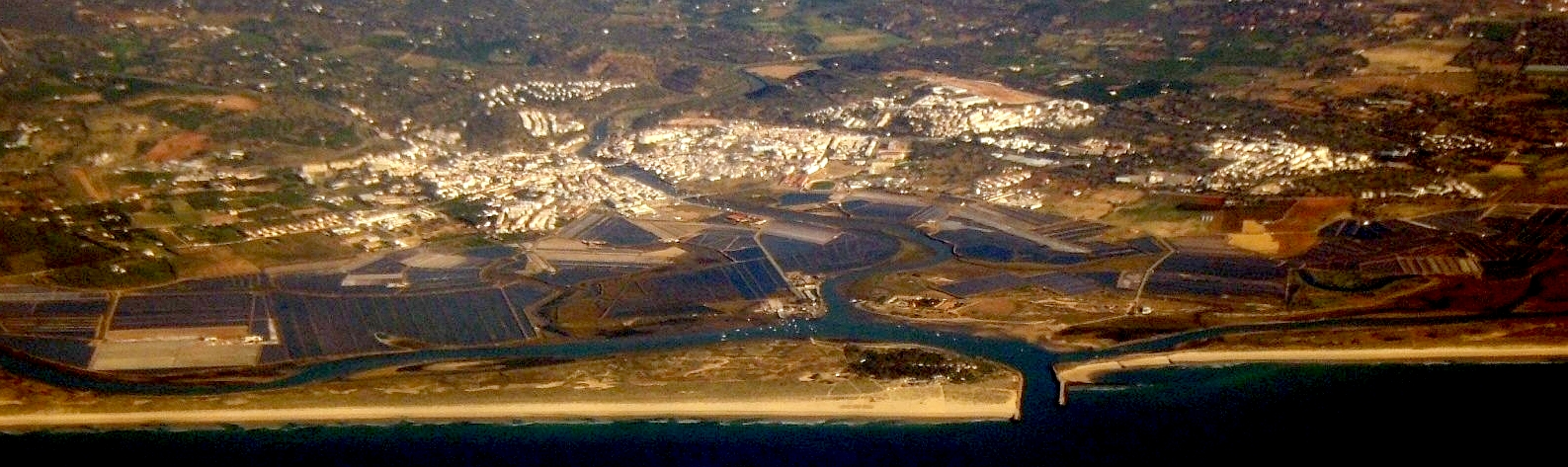 Aerial view of Tavira, Portugal, in the front: parts of Ilha de Tavira (left) and Ilha de Cabana (right)